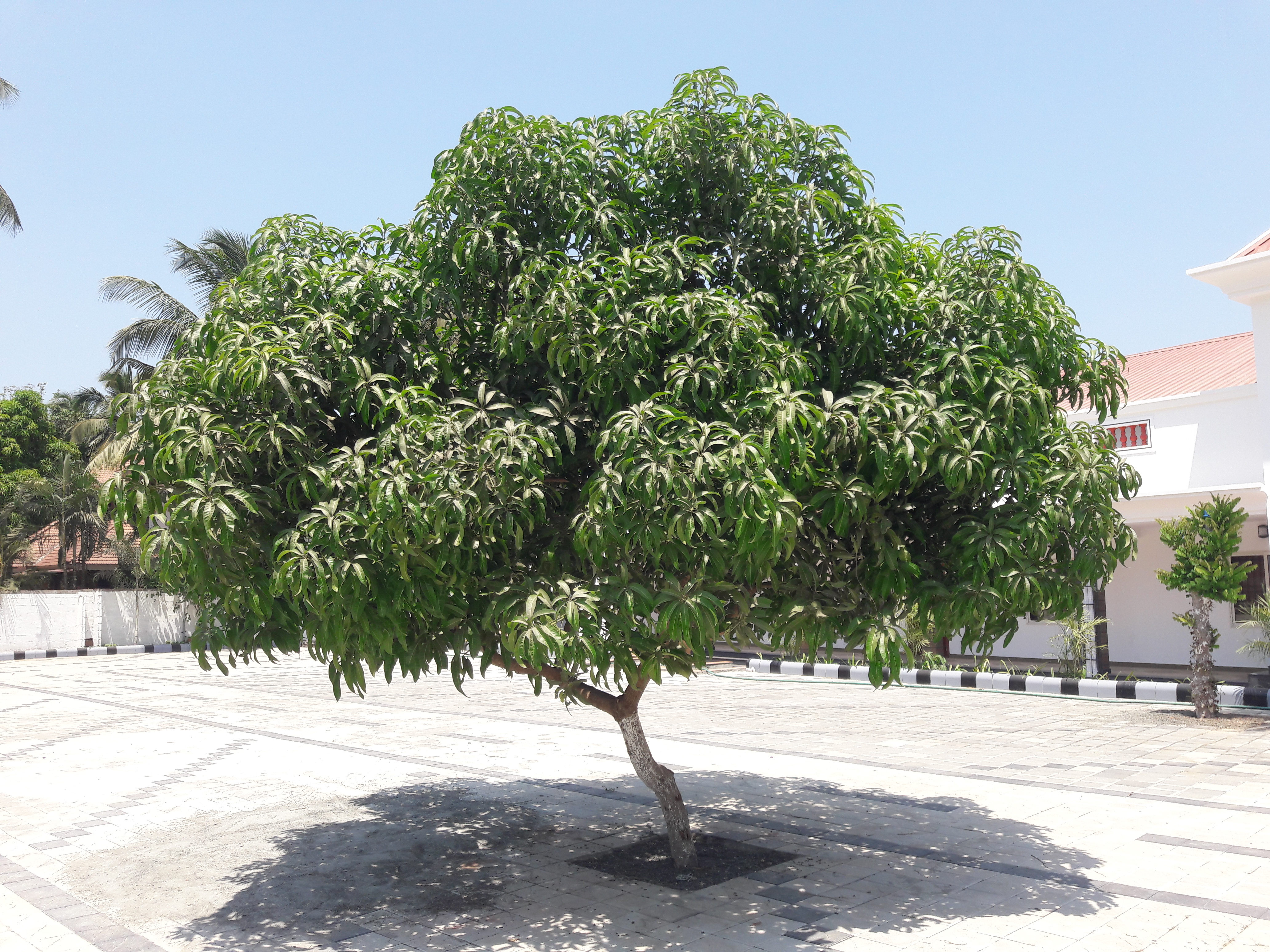 Mango tree Scientific name: Mangifera indica ; Family - Anacardiaceae.